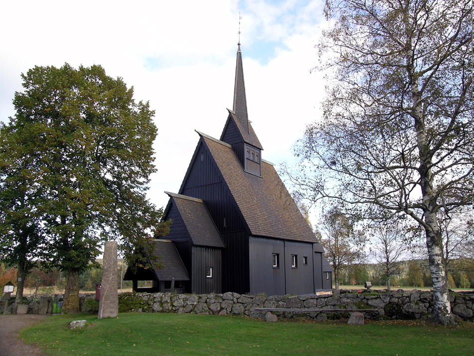 Høyjord stave church, Andebu, Norway.